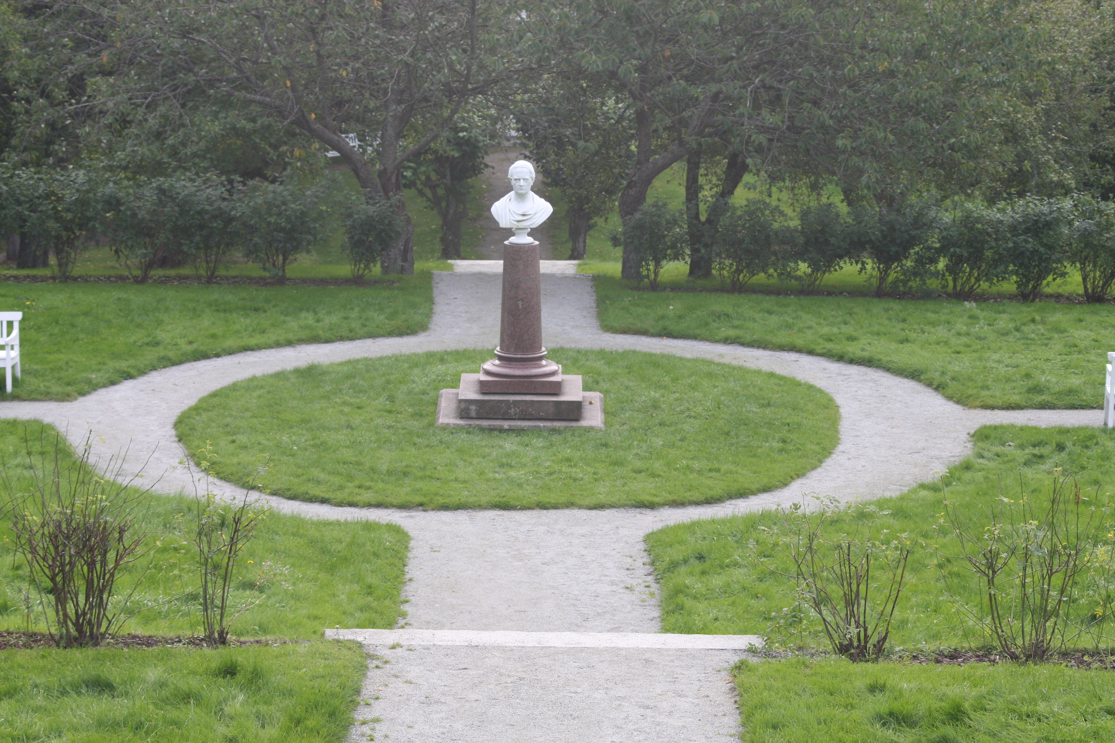 Röd herregaard (Röd manor) in the city of Halden, Norway.It belonged to the Anker family, and was visited by Thomas Robert Malthus in 1799.